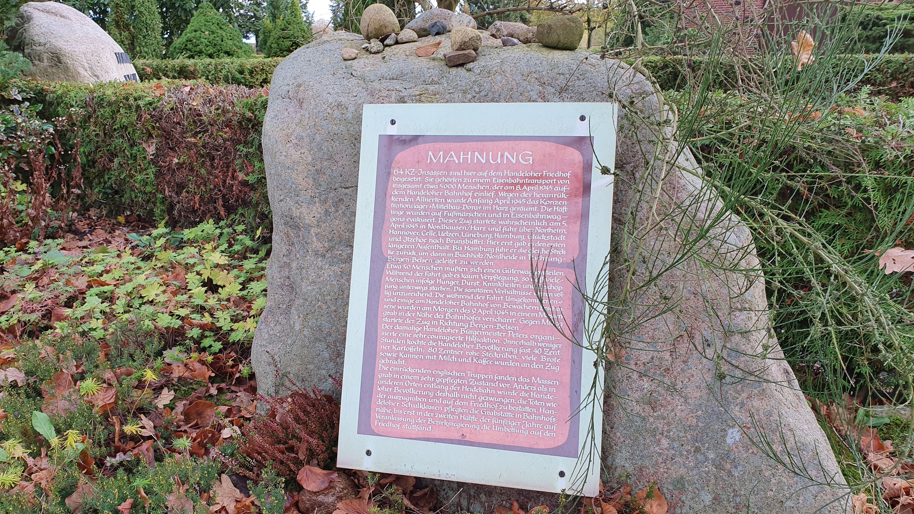 Memorial to Nazi victims in Handeloh text plate